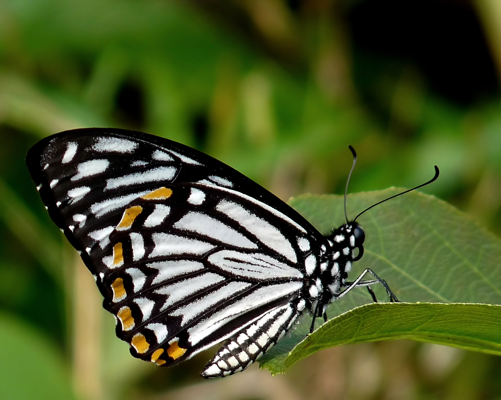 Papilio clytia form dissimilis, underside (mimics the Blue Tiger, Tirumala limniace) The Common Mime, Papilio clytia, is a Swallowtail butterfly found in South and South-east Asia. The butterfly belongs to the Chilasa group or the Black-bodied Swallowtails. It serves an excellent example of a Batesian mimic among the Indian butterflies. Taken at Kadavoor, Kerala, India.